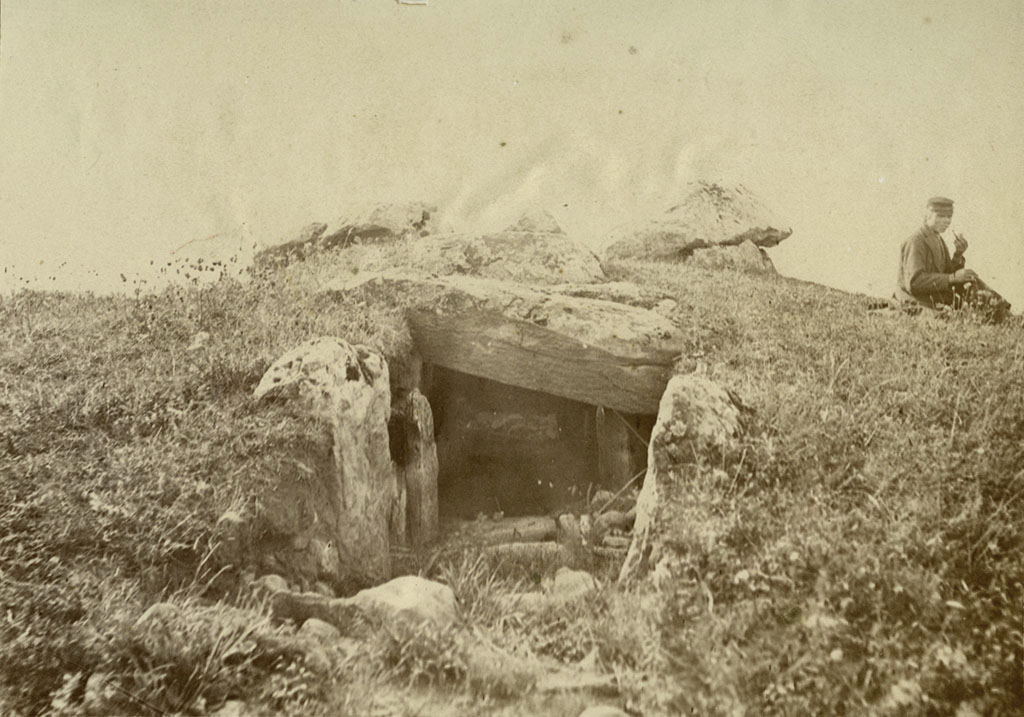 Man sitting on top of a Neolithic passage grave at Klövagården. (Ca 3500 BC)